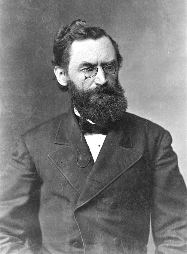 Carl Schurz was a German revolutionist and American statesman and reformer. Carl Schurz, half-length portrait, facing right